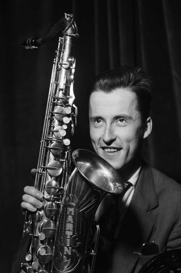 Depicted person: Bjarne Nerem – Jazz saxophonist